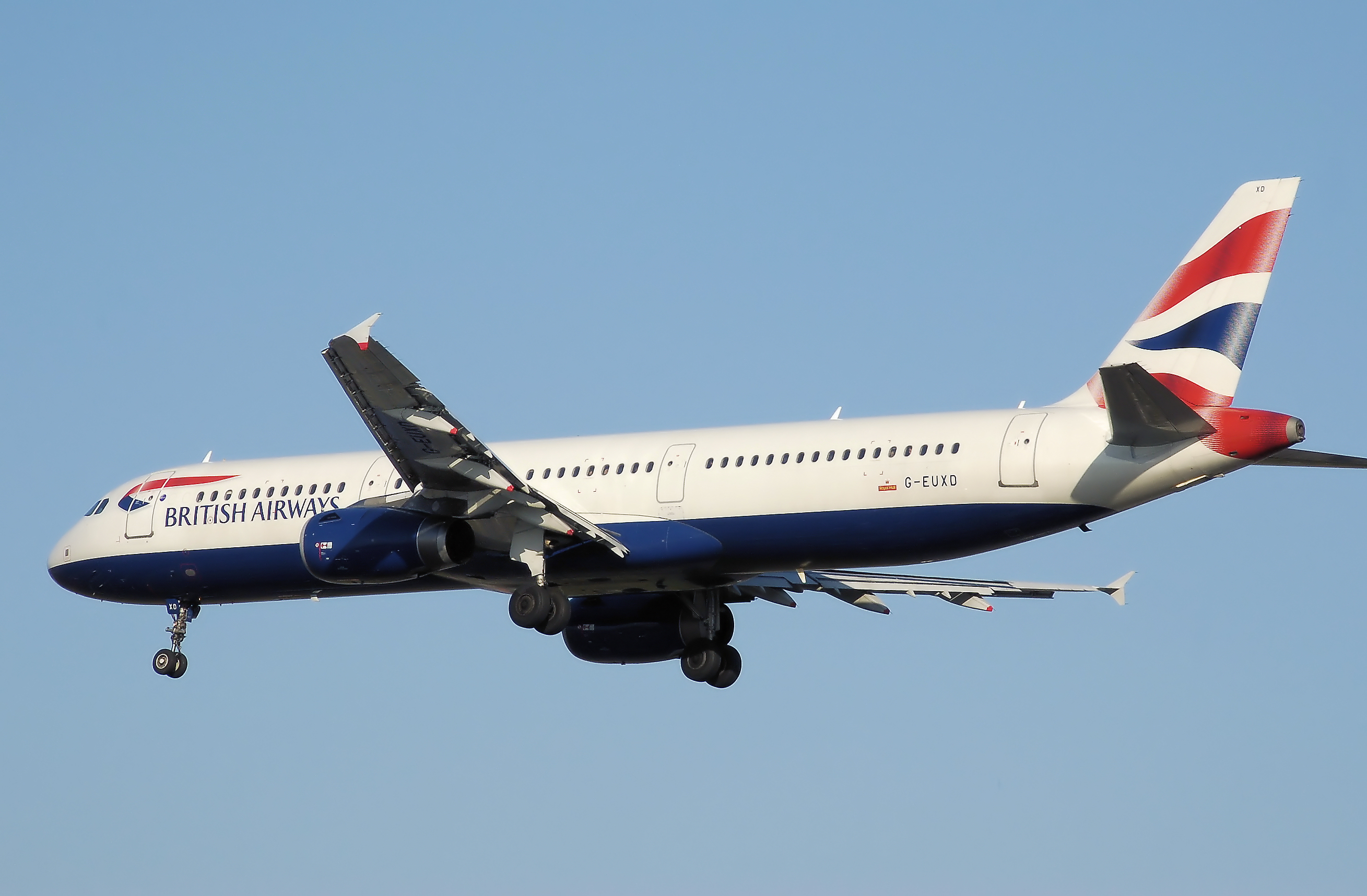 British Airways Airbus A321-200 (G-EUXD) lands at London Heathrow Airport, England.